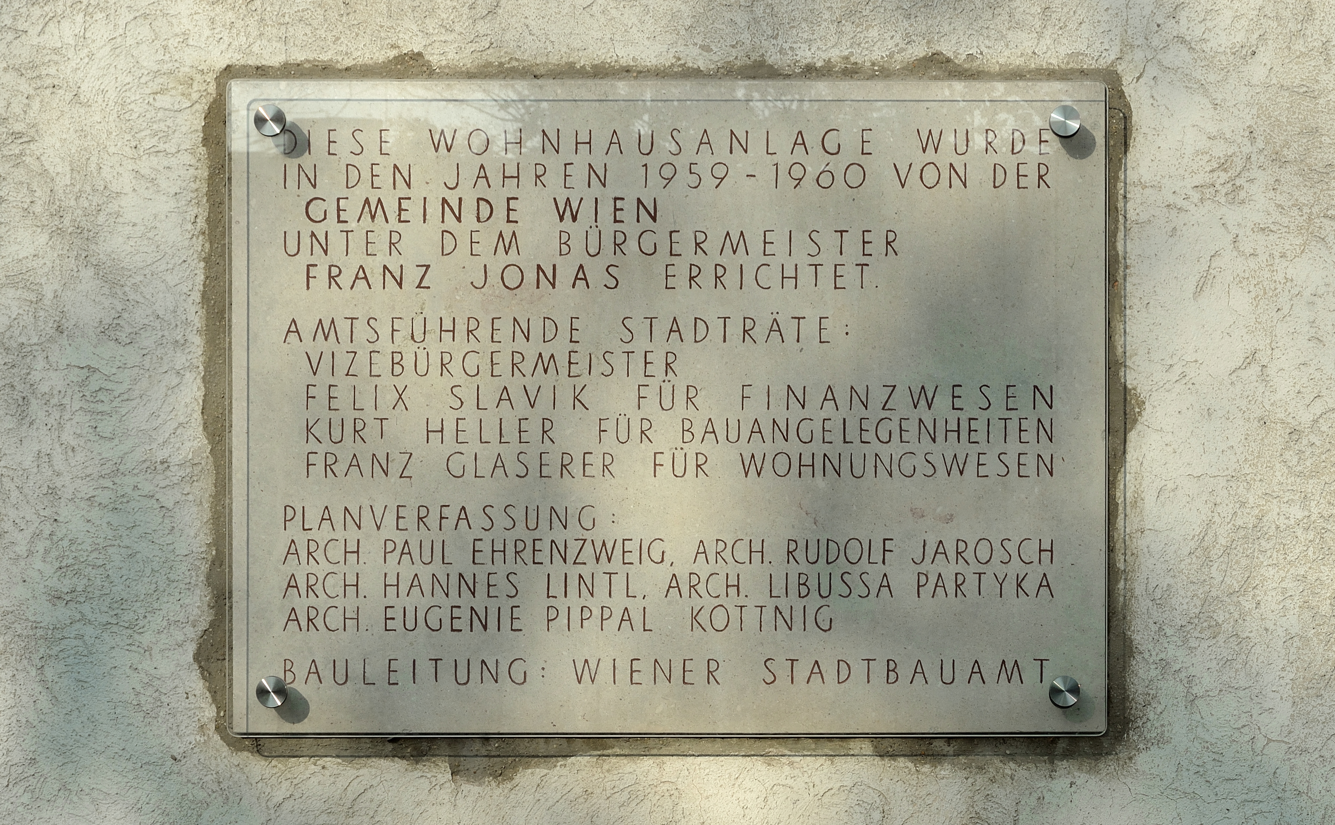 Gemeindebau Raxstraße 38, Favoriten, Vienna